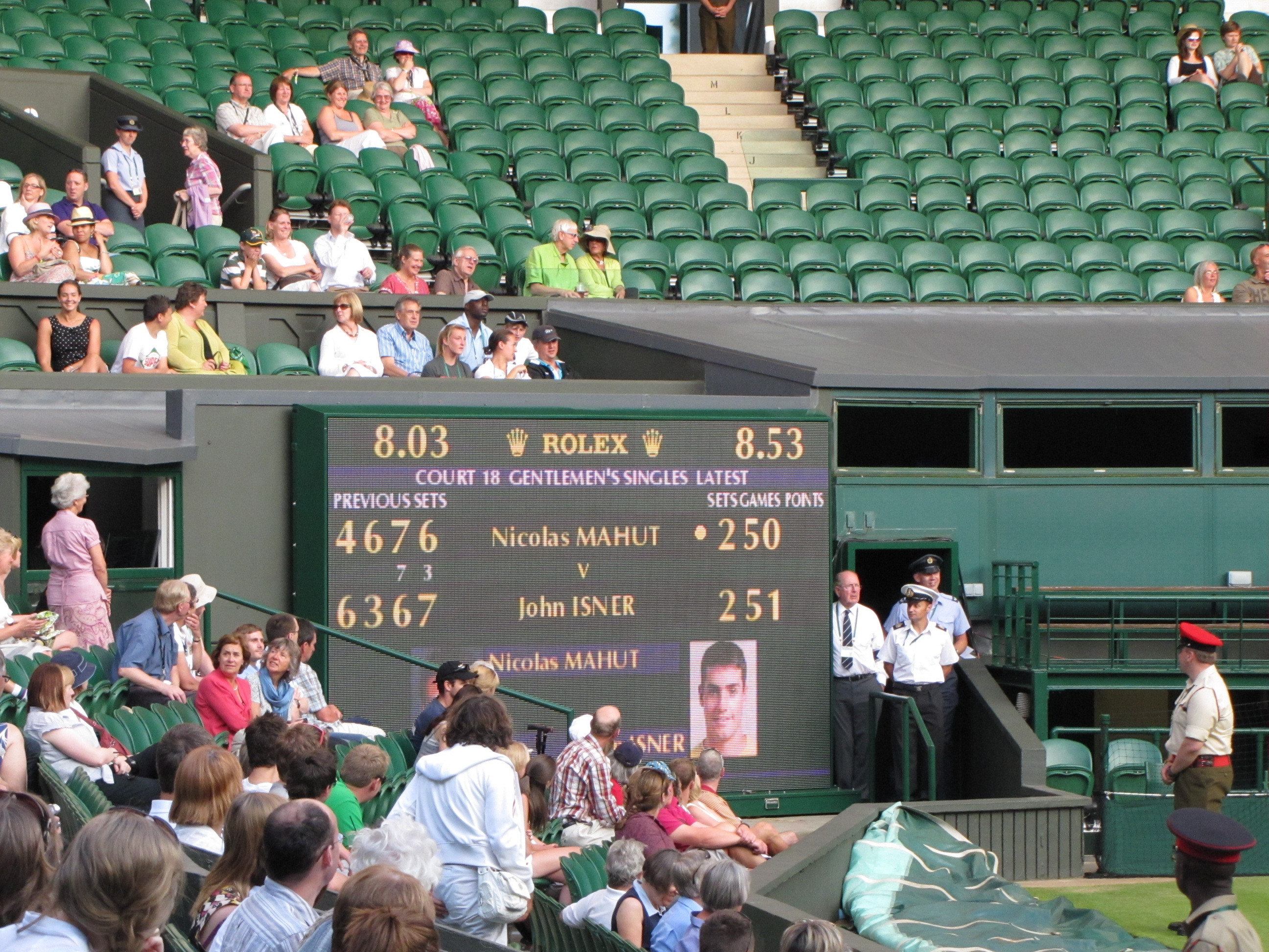 Wimbledon 2010. On court 16, a score board shows the score of the match between Nicolas Mahut and John Isner : 51-50 in the 5th set, match in progress. It's 8.03 pm and both players have already played during 8h53 at this stage of the match (which they started the previous day and will eventually finish the day after, 70-68 in the 5th set).